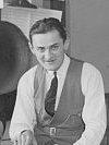 Arthur "The Baron" Schutt (1902-1965), U.S. jazz pianist.